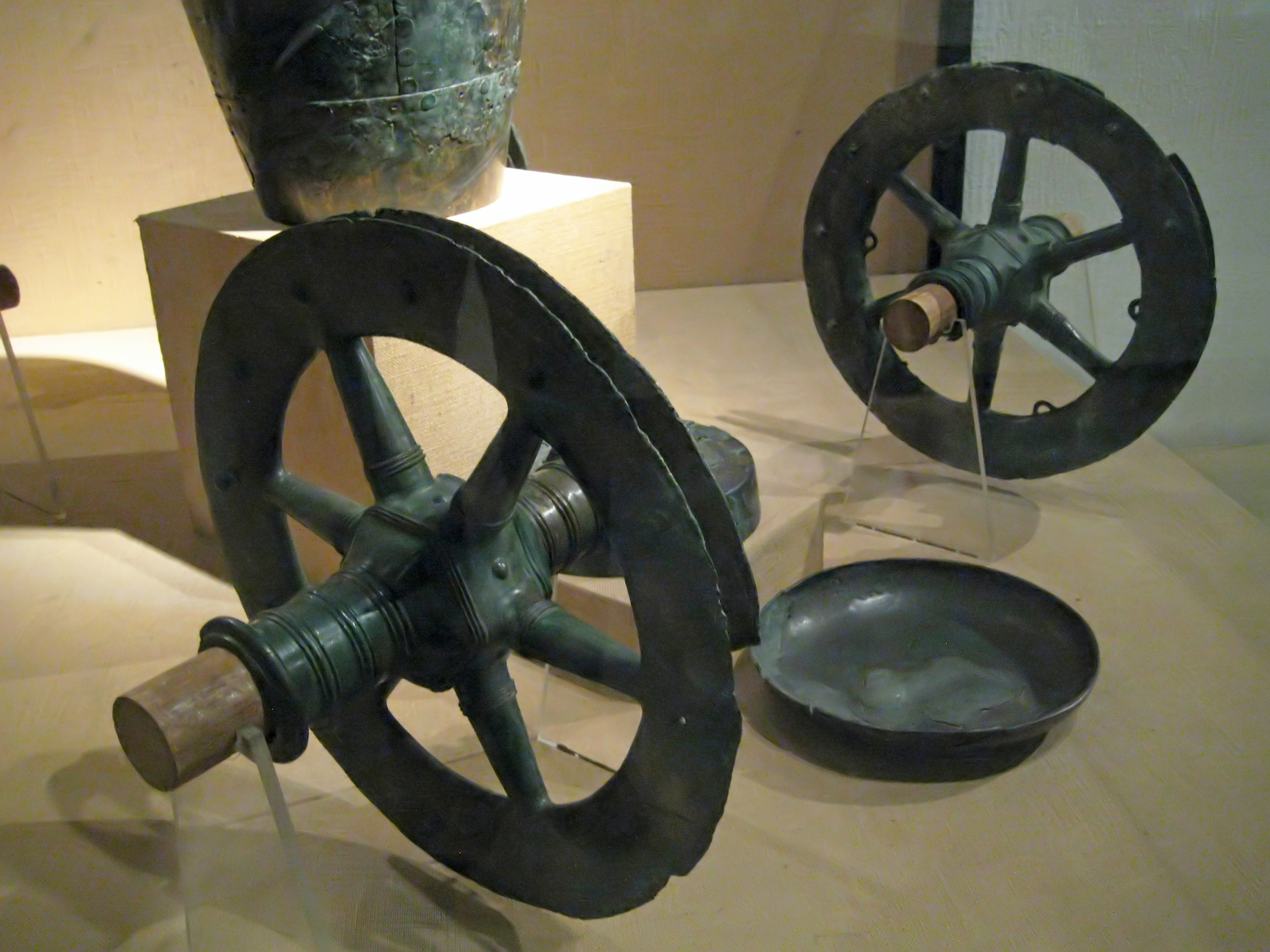 Wheel about 700 BC